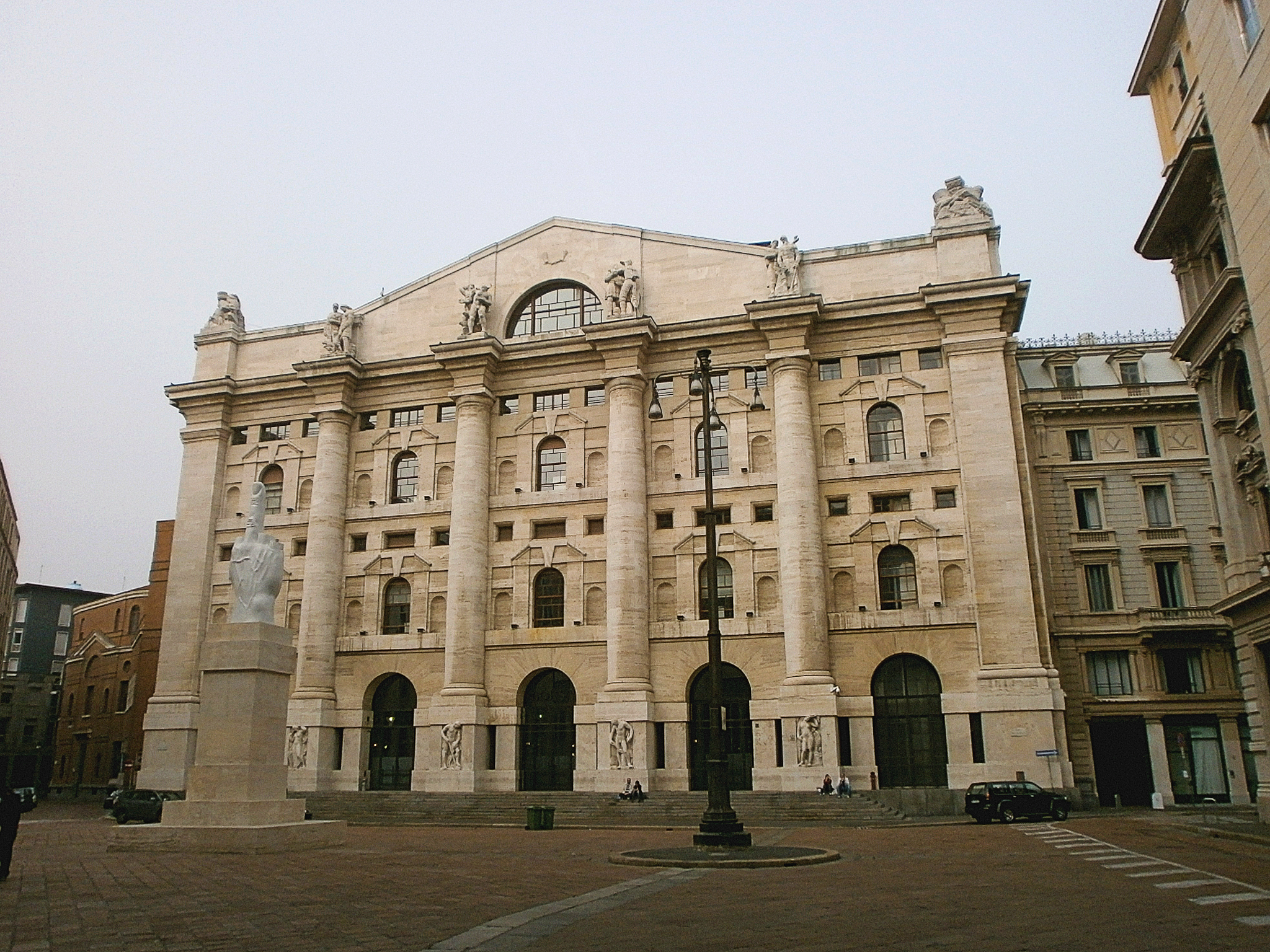 Palazzo Mezzanotte - Piazza Affari - Borsa Italiana - Milan - Italy; de minimis non curat lex is applicable to the Cattelan sculpture in the centre of the square (on the left in the picture)